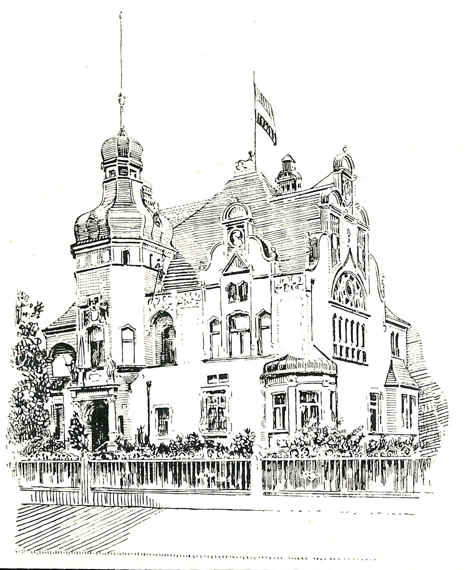 Former house of student fraternity Corps Isaria München, Maria Theresiastrasse 2, Munich/Bavaria, Germany